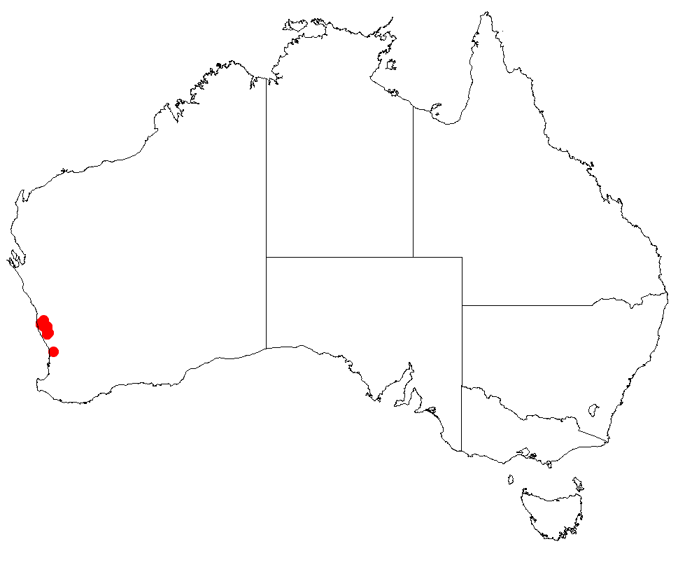 Hakea longiflora Occurrence data downloaded from Australasian Virtual Herbarium on 22 November 2018 using